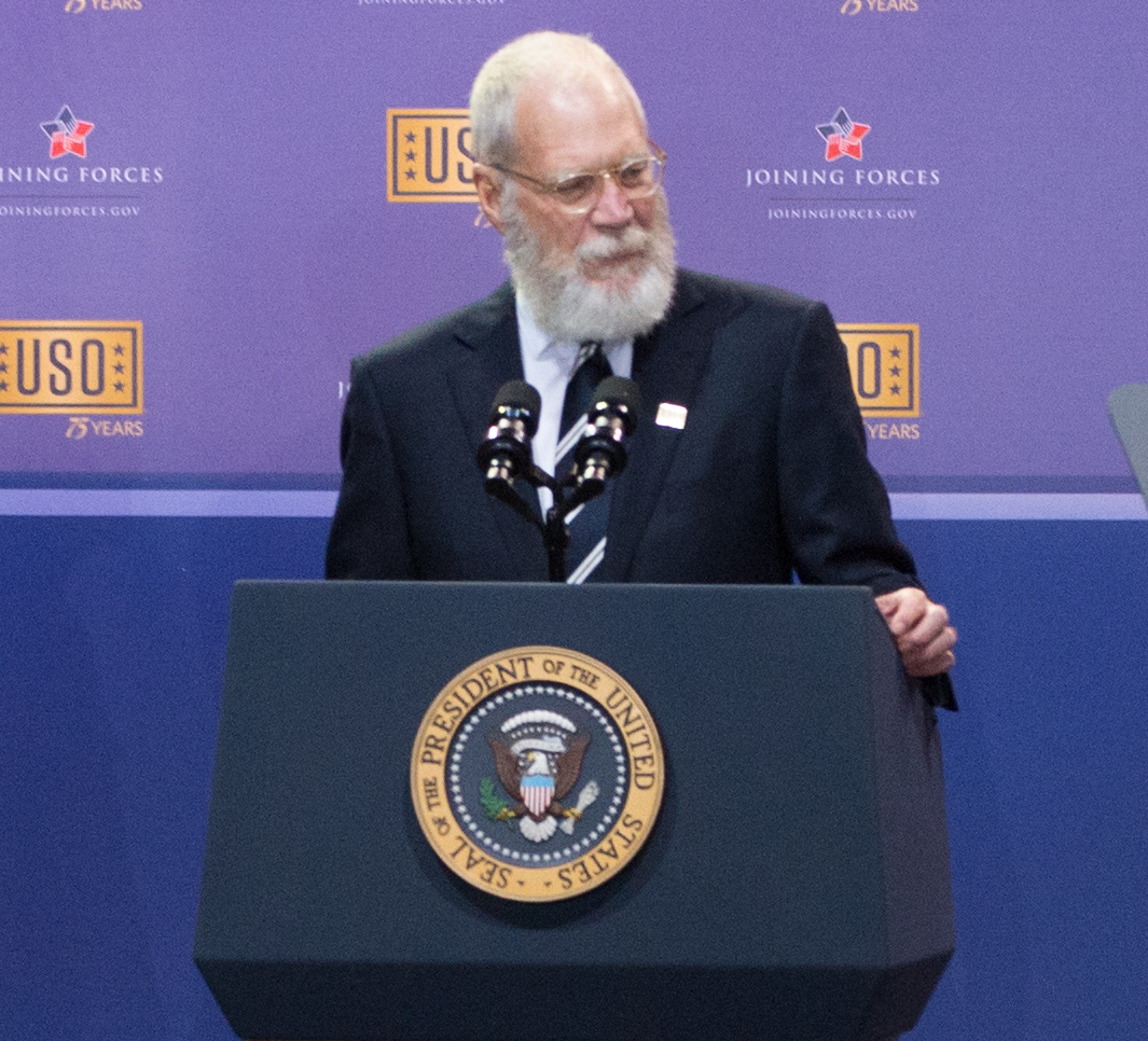 Former Late Show host and comedian David Letterman entertains at the president’s lectern as, from left, former Daily Show host and comedian Jon Stewart, President Barack Obama, First Lady Michelle Obama, Dr. Jill Biden, and Vice President Joe Biden listen during the comedy show in celebration of the 75th anniversary of the USO and the 5th anniversary of Joining Forces at Joint Base Andrews in Washington, D.C. May 5, 2016. Joining Forces is an initiative to help military, veterans and their families founded by Dr. Jill Biden and First Lady Michelle Obama.